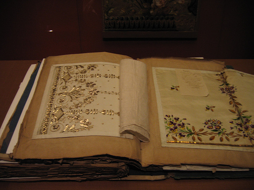 Lyon in France - museum